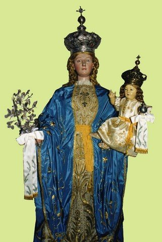 Our Lady of Peace statue Taranto